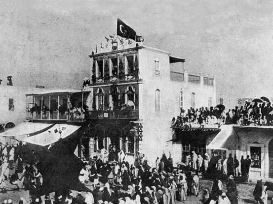 Mawlid Celebrations in Ottoman Benghazi in 1896. The Ottoman flag is being raised on a building in the Municipality Square.